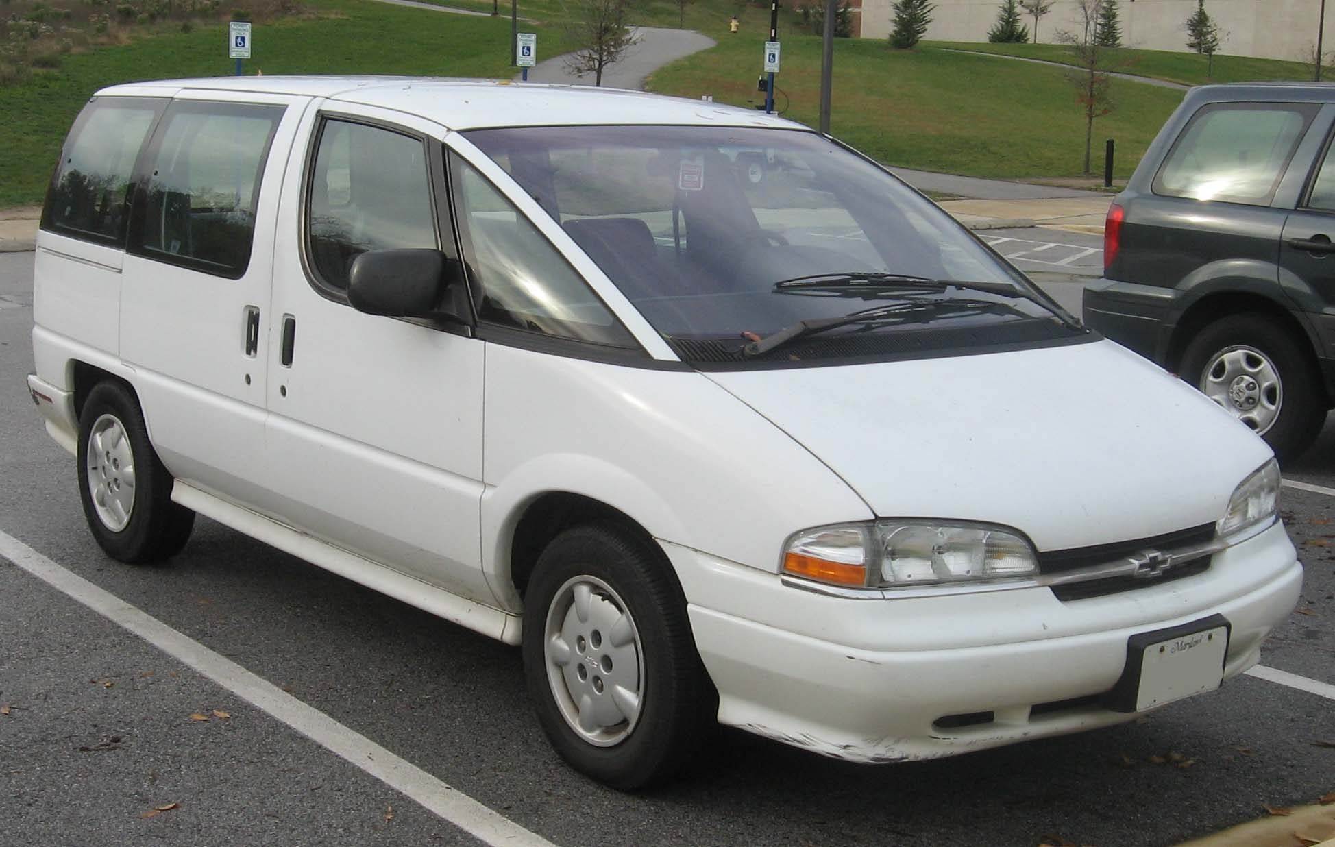 1994-1996 Chevrolet Lumina APV photographed in College Park, Maryland, USA.